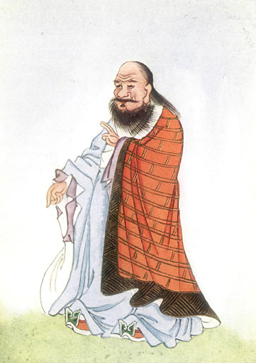 Portrait of Lao Zi (Lao Tzu)